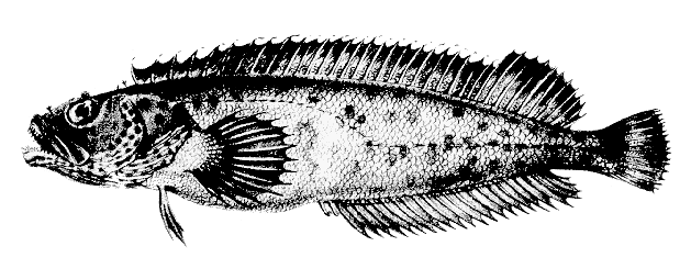 Auchenionchus microcirrhis, a species of labrisomid. From Jenyns, L., 1842. Fish. In C. Darwin (ed.) The zoology of the voyage of H.M.S. Beagle, under the command of Captain Fitzroy, R.N., during the years 1832-1836. Smith, Elder & Co., London.